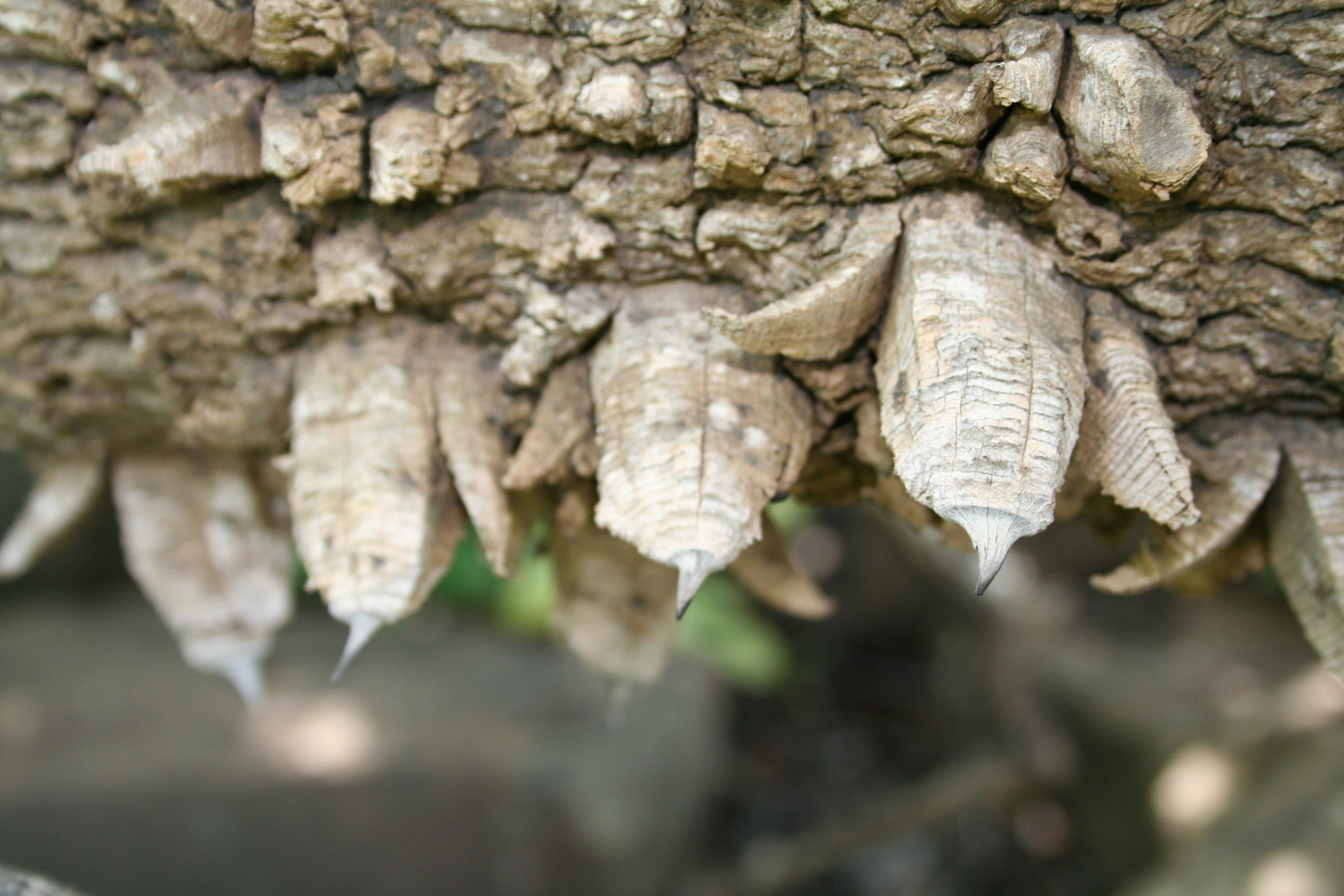 spines of Zanthoxylum zanthoxyloides, SW Burkina Faso